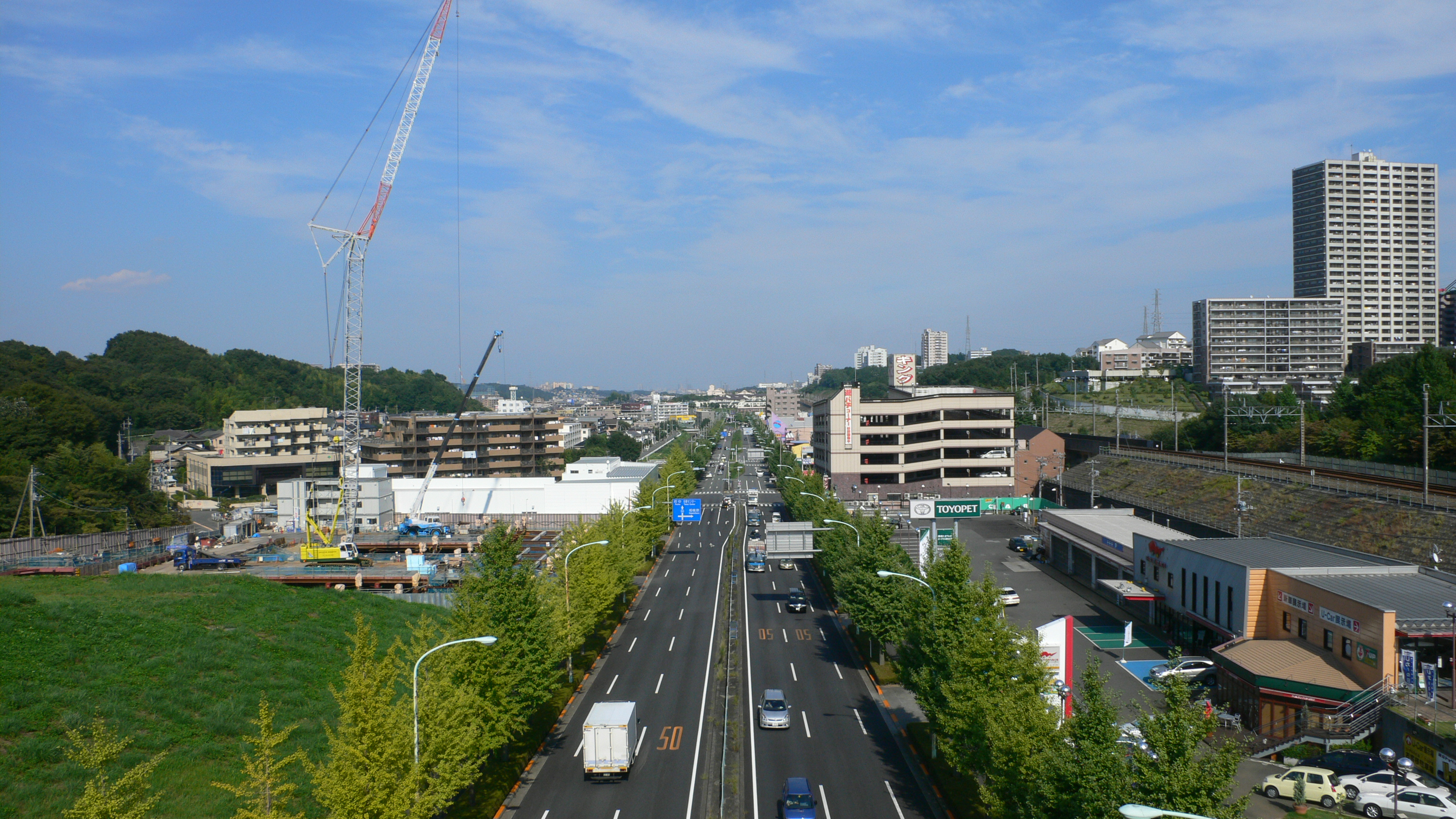 Tokyo_prefectural_road_158 Oyama-Kotta line(Tama new town street) photographed from Minami-Ōsawa Ōhashi